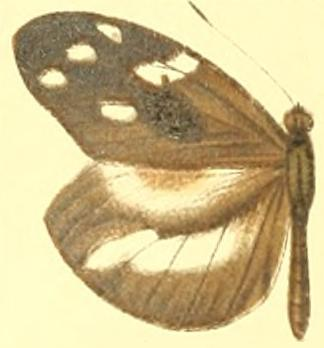 Plate from The Macrolepidoptera of the World. Vol. 5. Pieridae Dismorphiinae: Dismorphia arcadia